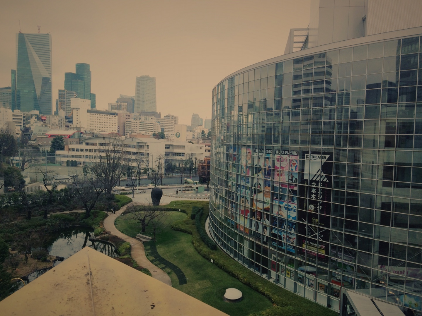 View of TV Asahi